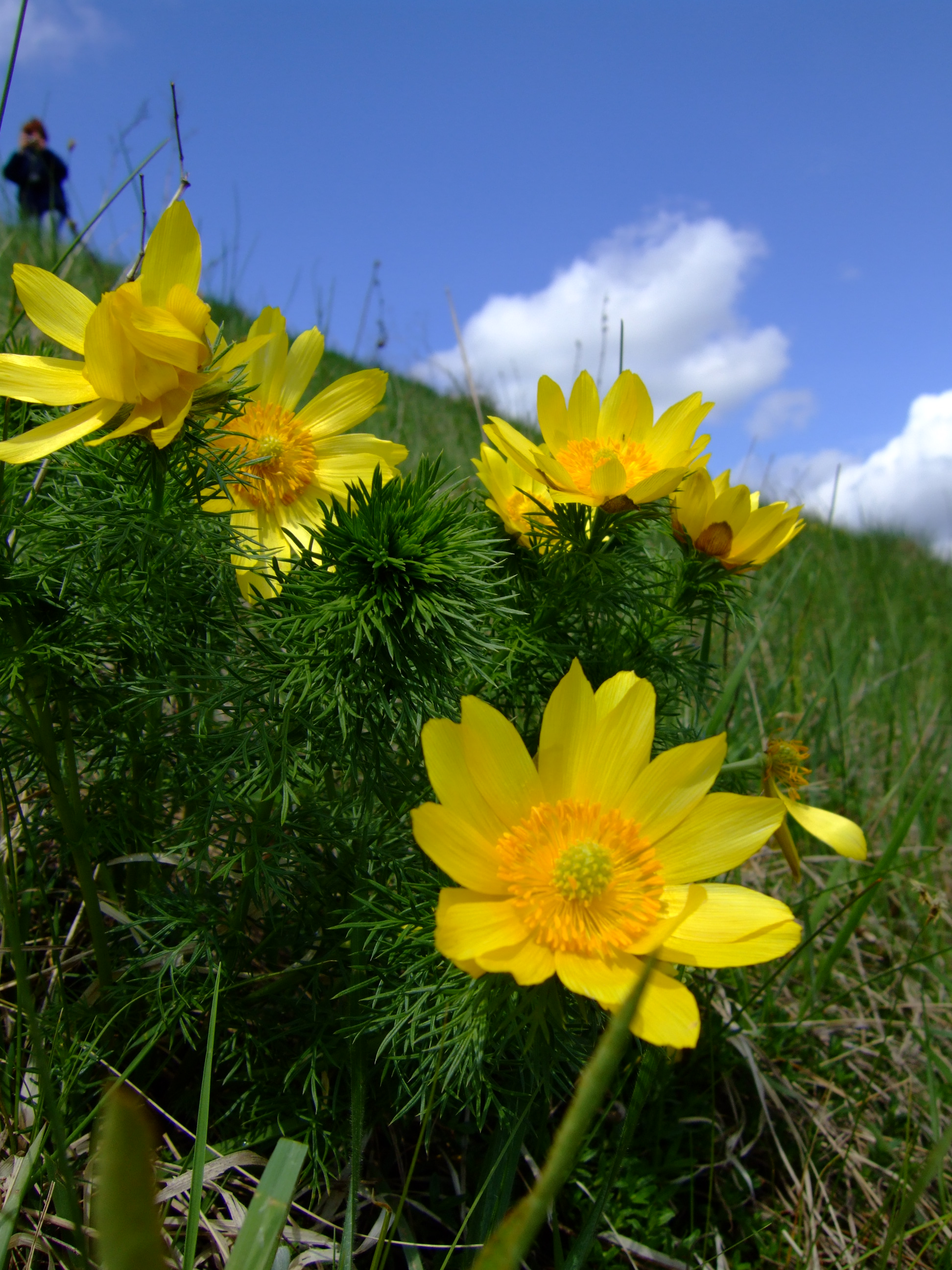 Pheasant's eye (Adonis Vernalis) near Skorocice Nature Reserve, Ponidzie, Poland, 2007 yr. Aparat/Camera: Fuji FinePix E900